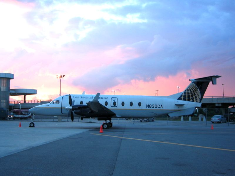 CommutAir Beechcraft 1900, taken in Rochester, NY, on July 24, 2003.